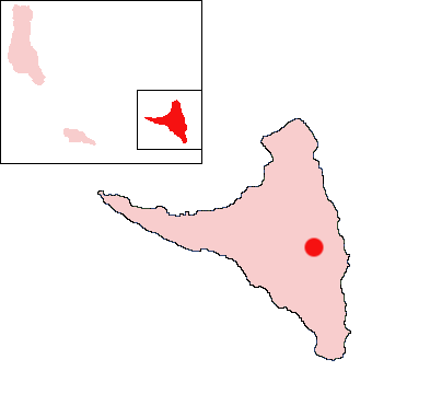 Koni-Djodjo, Anjouan, Comoros Location Map; created with the GIMP. Made by User:Acntx.